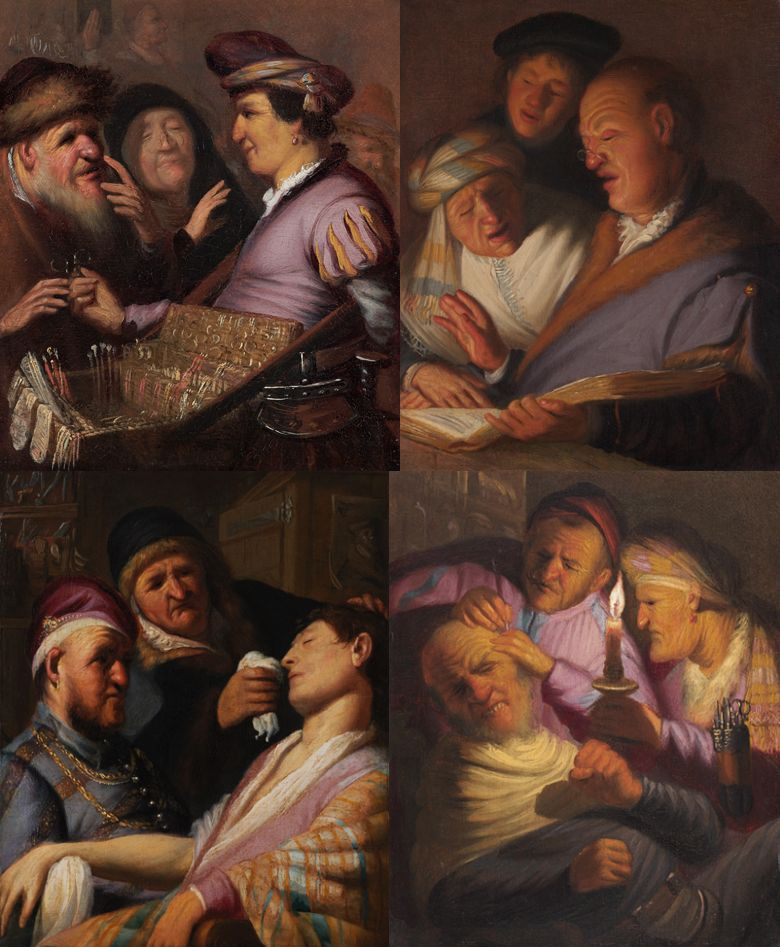 Series of five oil-on-board paintings in the series The Senses by Rembrandt. The whereabouts of the 'taste' picture is unknown.